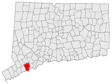 I made this.